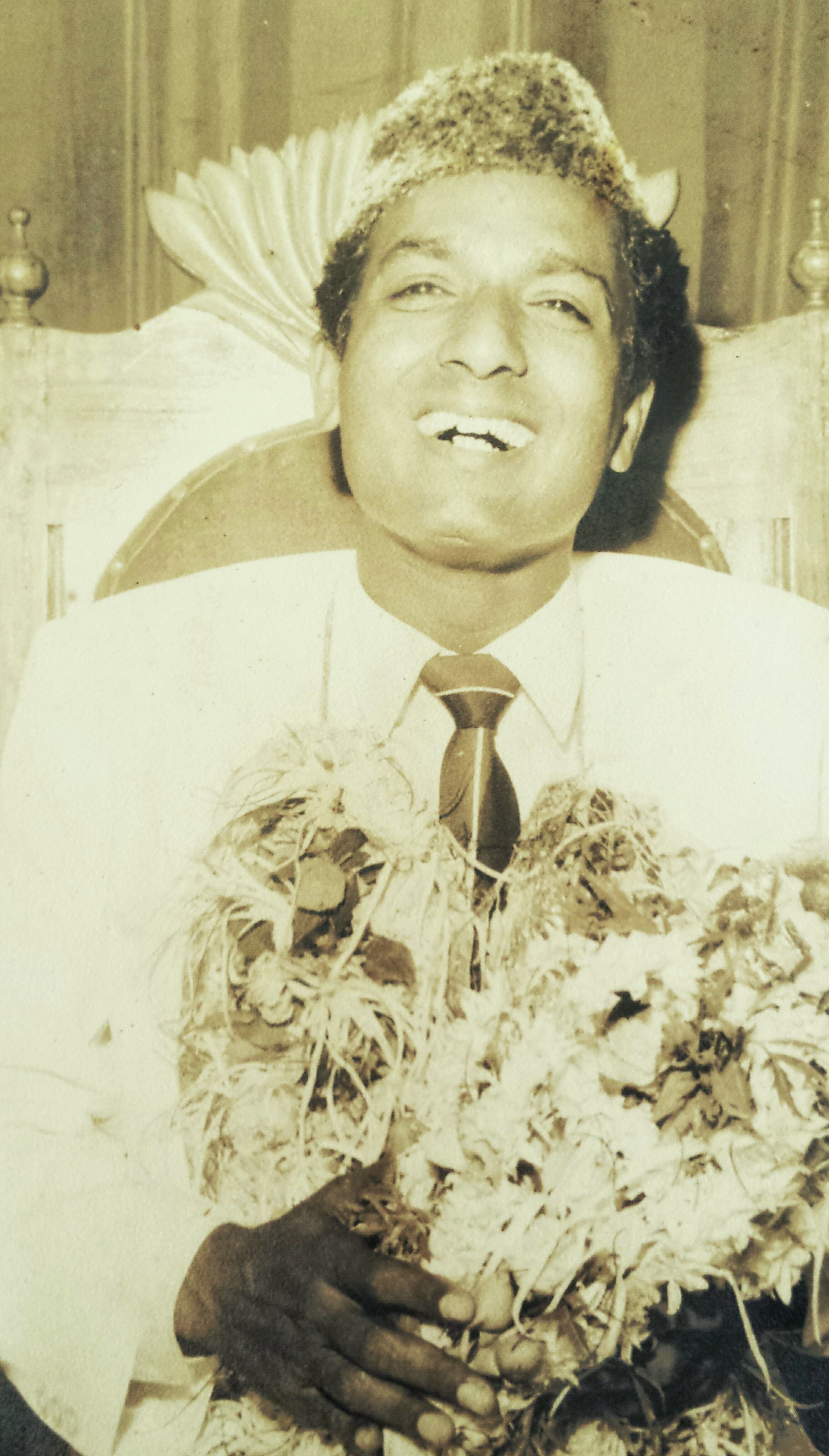 Faruk Kaiser- lyricist India (1918-1987) Photo taken on his wedding day.